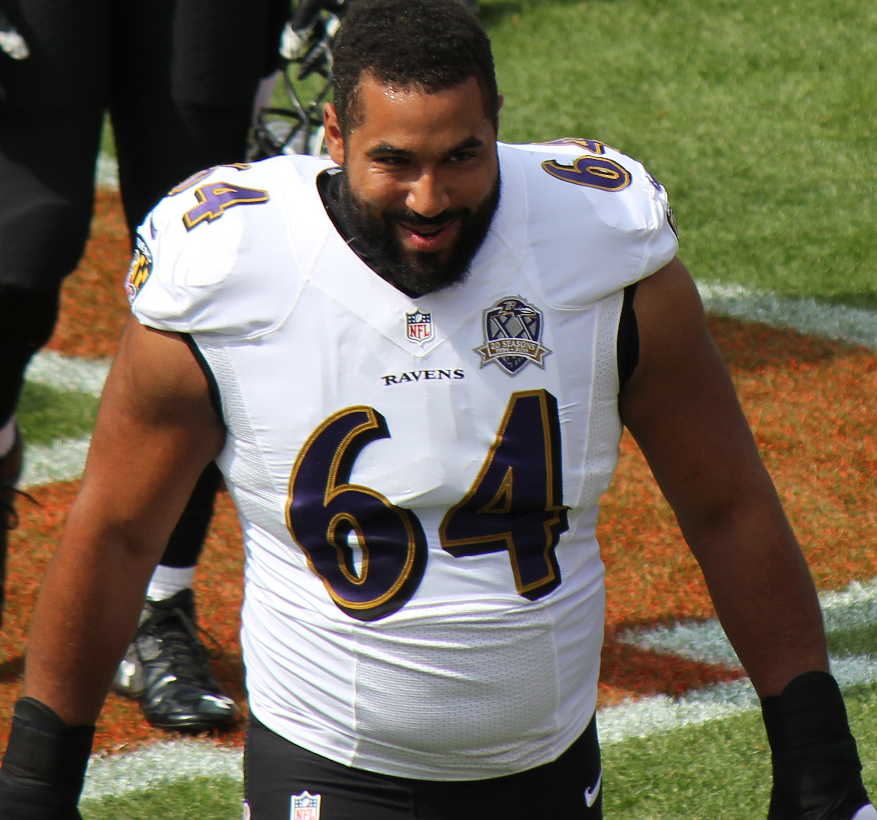 John Urschel, a player on the National Football League.